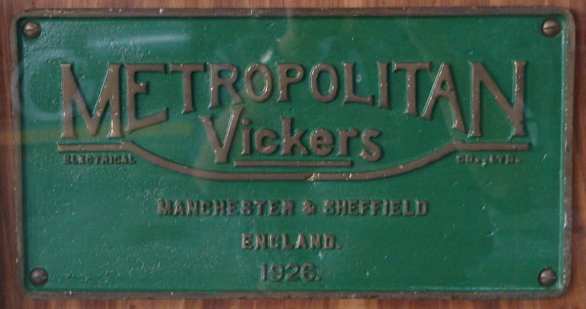 SAR Class 1E Series 2 builder's plate (Locomotiver number range E79 to E95)Location: George, Western Cape